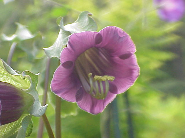 Species: Cobaea scandens Family: Polemoniaceae Image No. 1